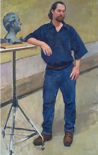 Jerry Weiss. Daniel Edwards, c. 2000, oil on canvas, 60" by 38". Painting by Jerry Weiss/me, done from life, of sculptor Daniel Edwards. Edwards is shown sculpting a bust of Weiss/me.